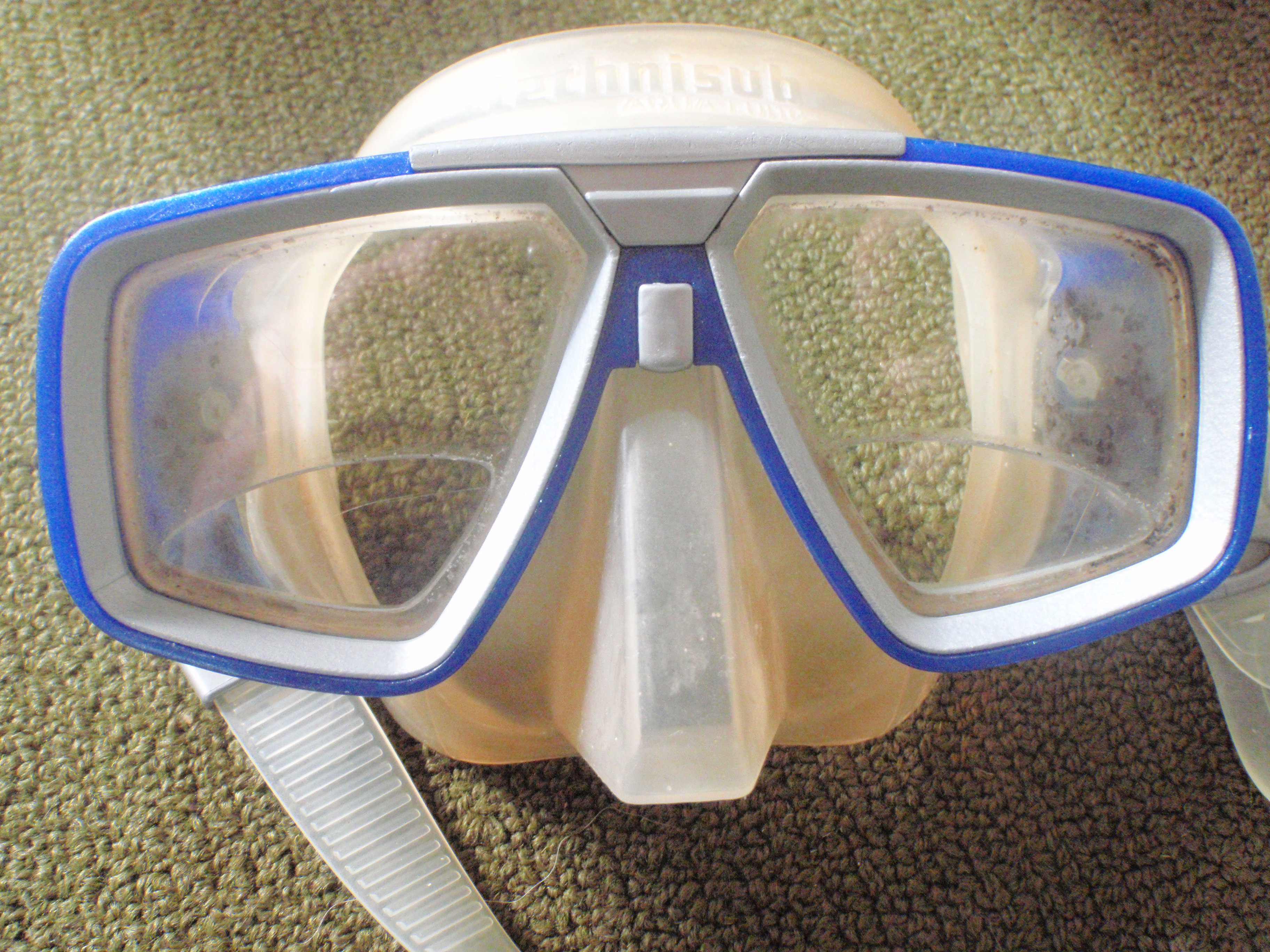 Diving half mask with plain glass lenses and small additional lenses to provide bifocal correction